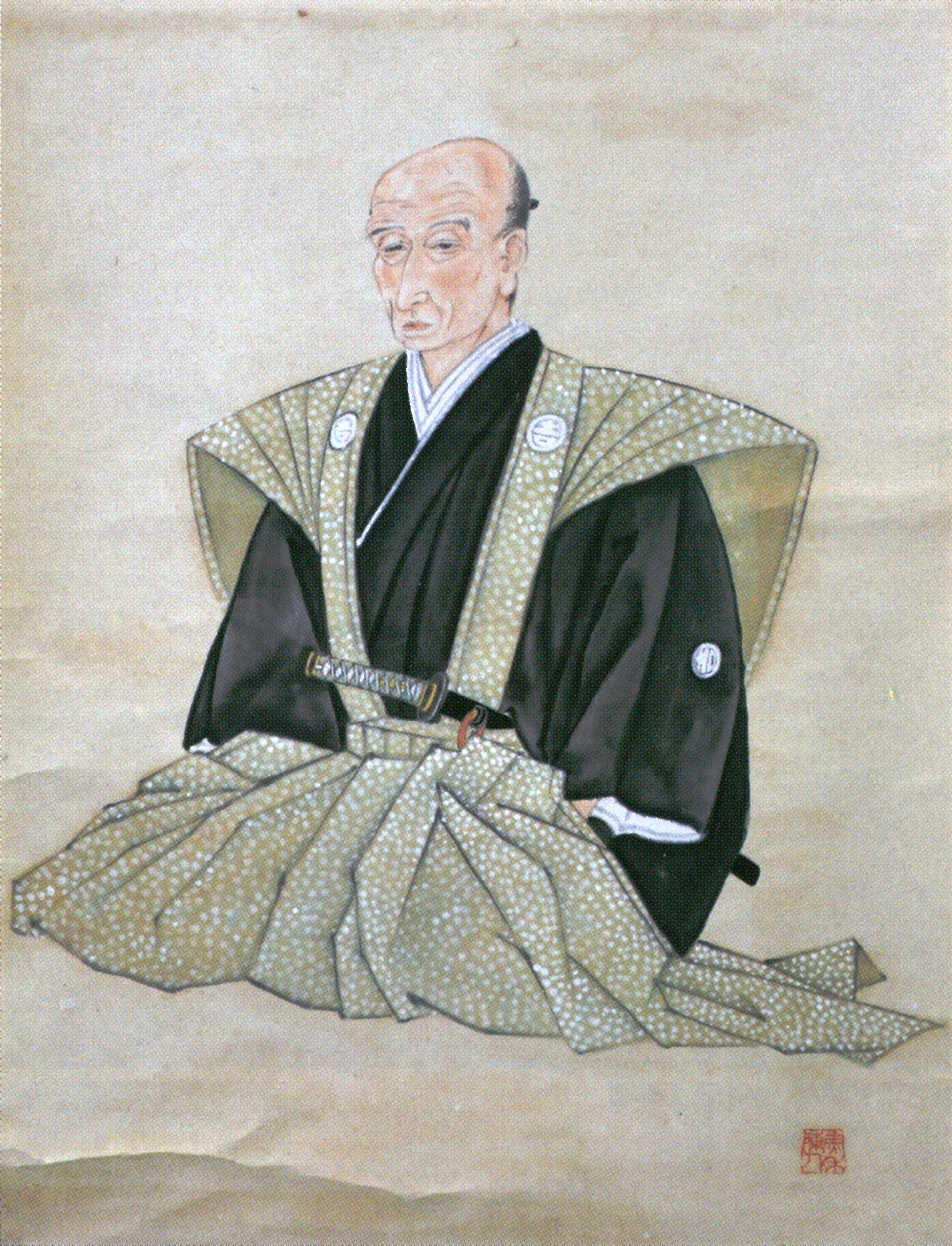 photo of Yamada Hōkoku portrait.Hōkoku is a Japanese scholar of Confucianism and politician of Bitchū Matsuyama clan in the end of Edo period.